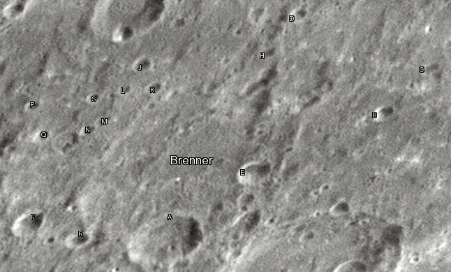 Brenner lunar crater as seen from Earth with satellite craters labeled